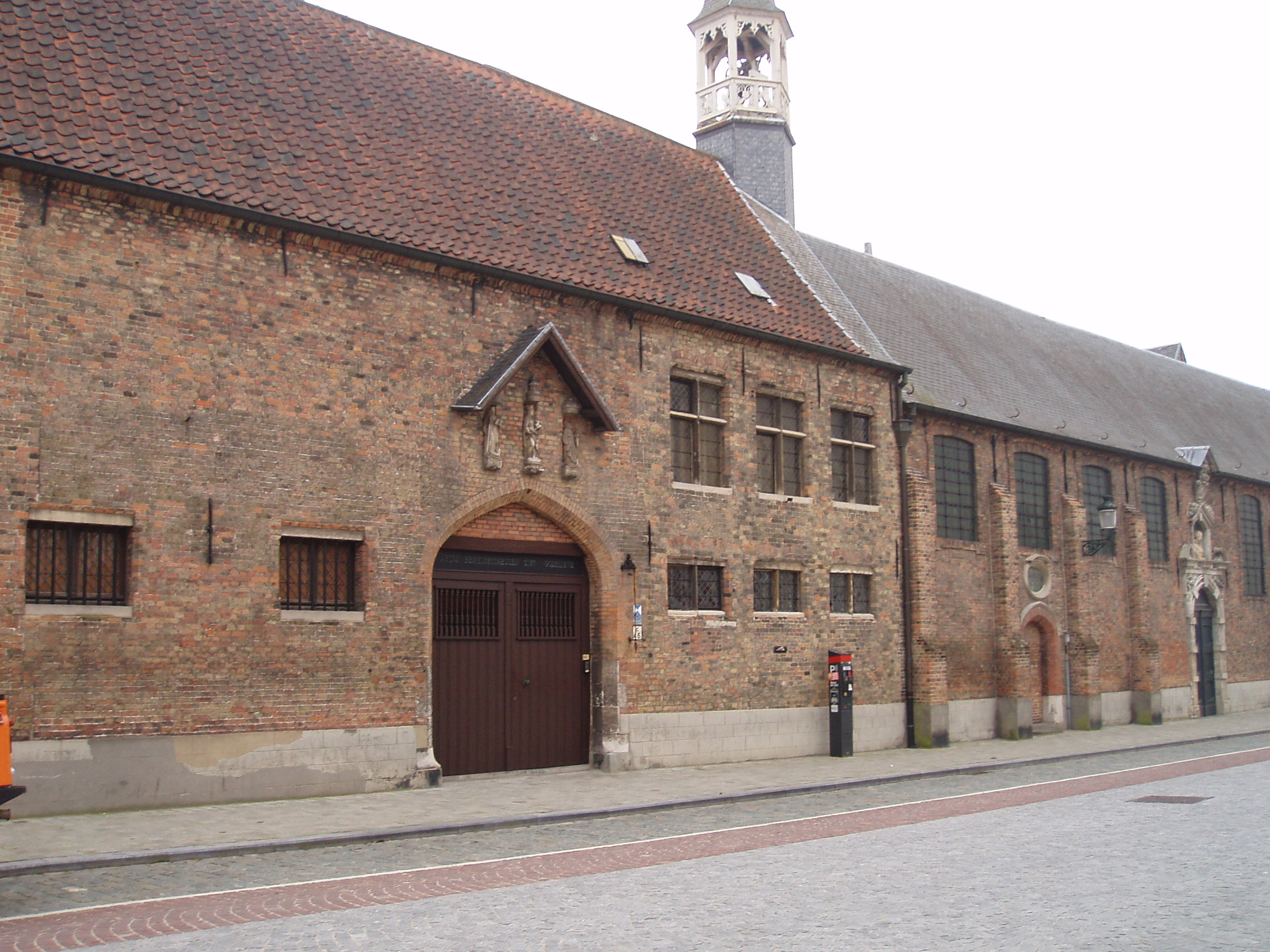 Bruges Sint-Godelieve abbey